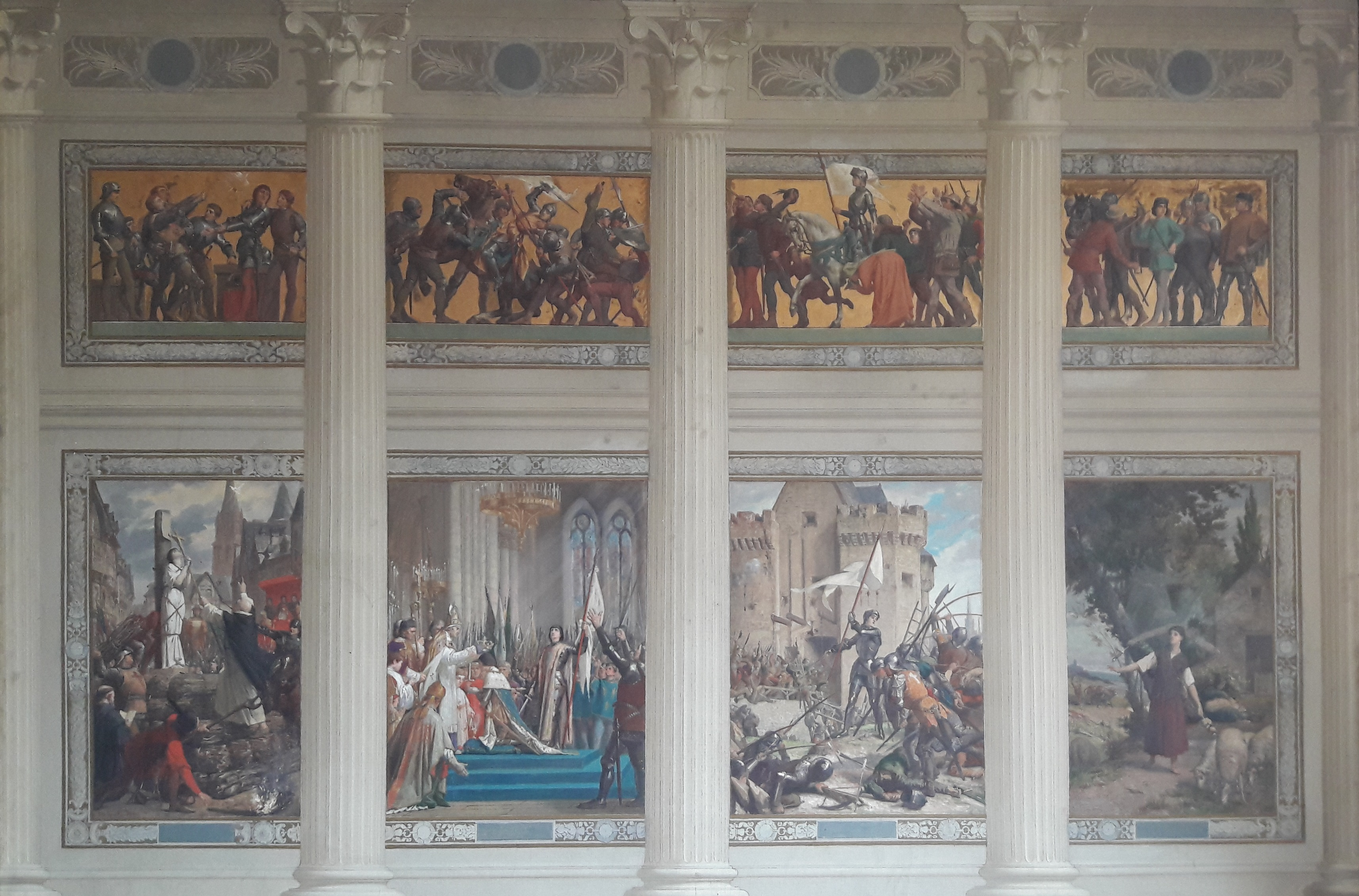 Miniature painting of the Panthéon Joan of Arc fresque by Jules Eugène Lenepveu